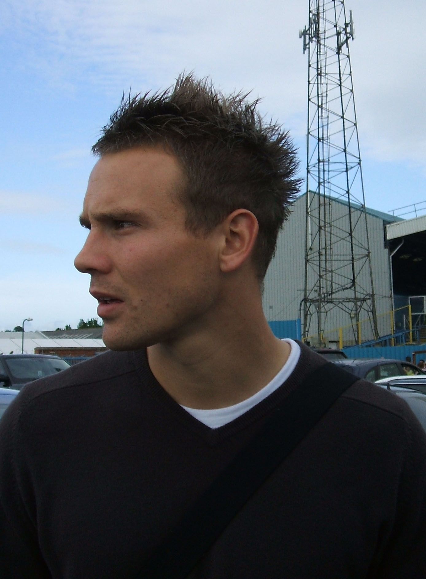 Matthew Taylor. (I? took this photo)